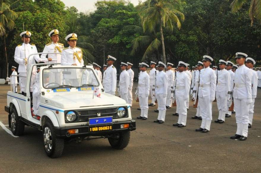 Indian Navy's Rear Admiral S.N. Ghormade takes over as Flag Officer Commanding, Maharashtra Area